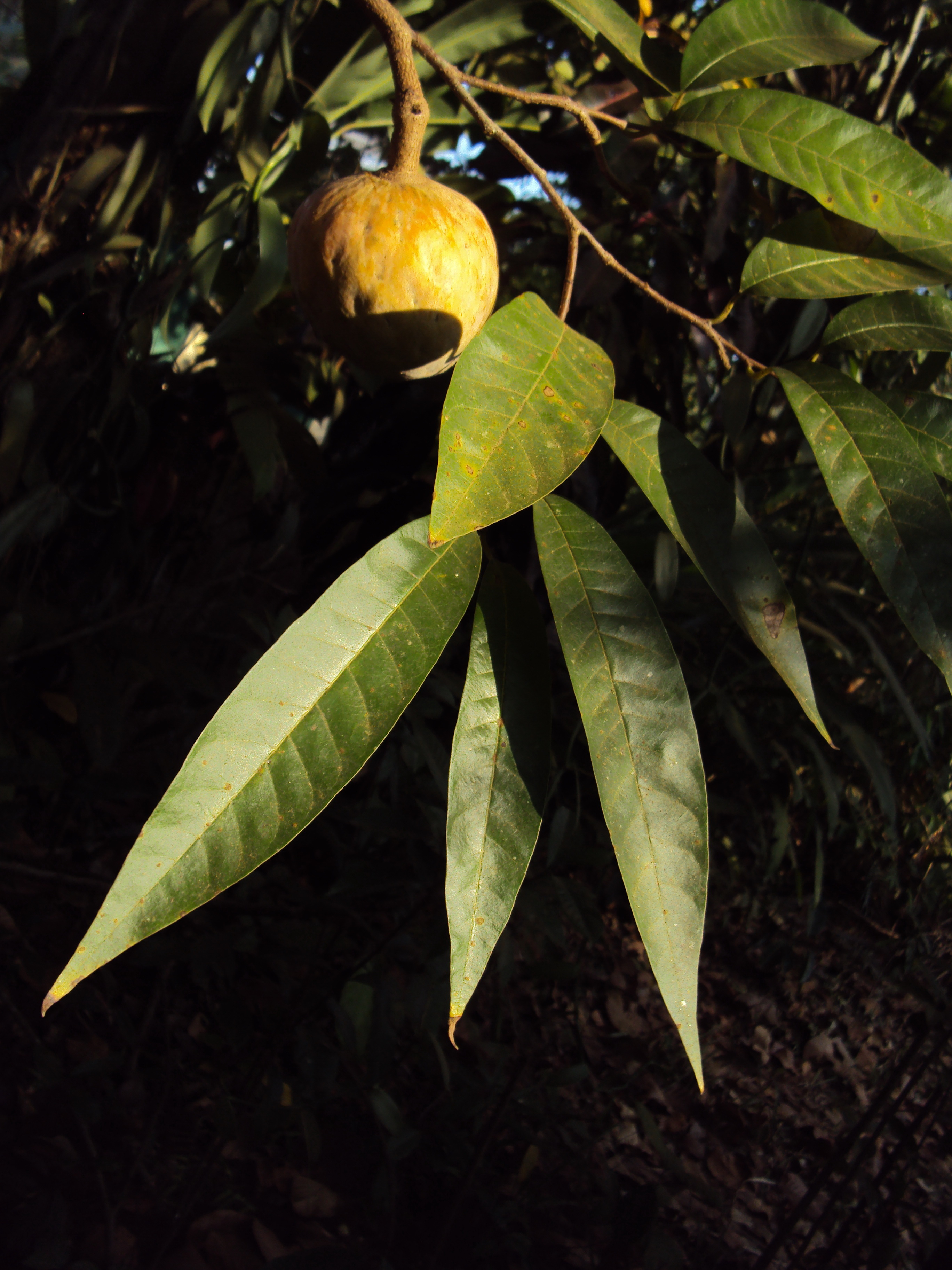 Annona reticulata